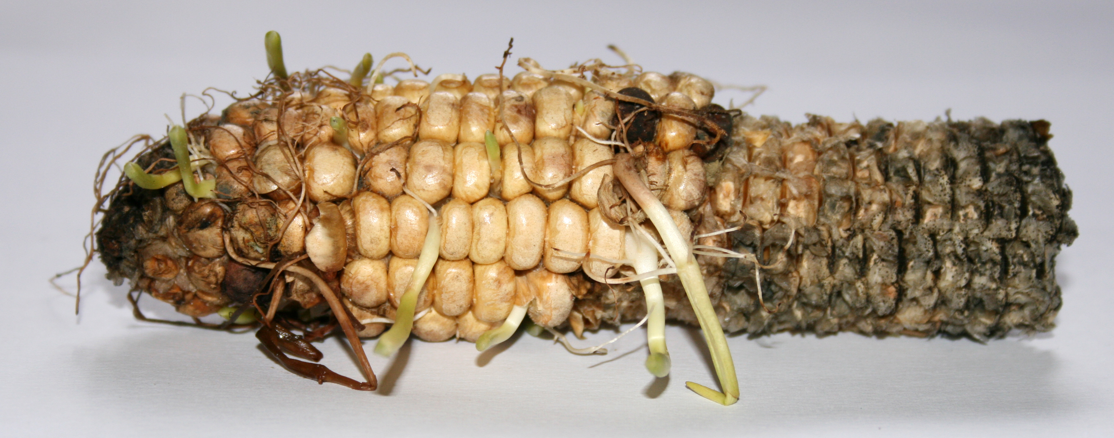 Maize